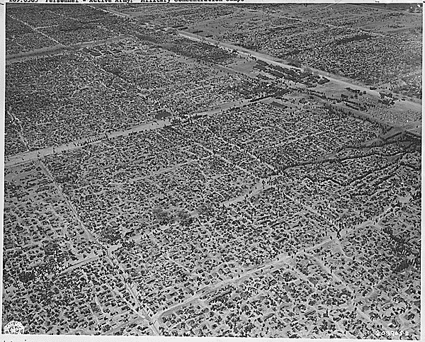 Camp for German prisoners of war. Unidentified location in Germany, 1945